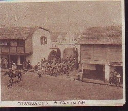 Belgian army in Yaounde. 1915.